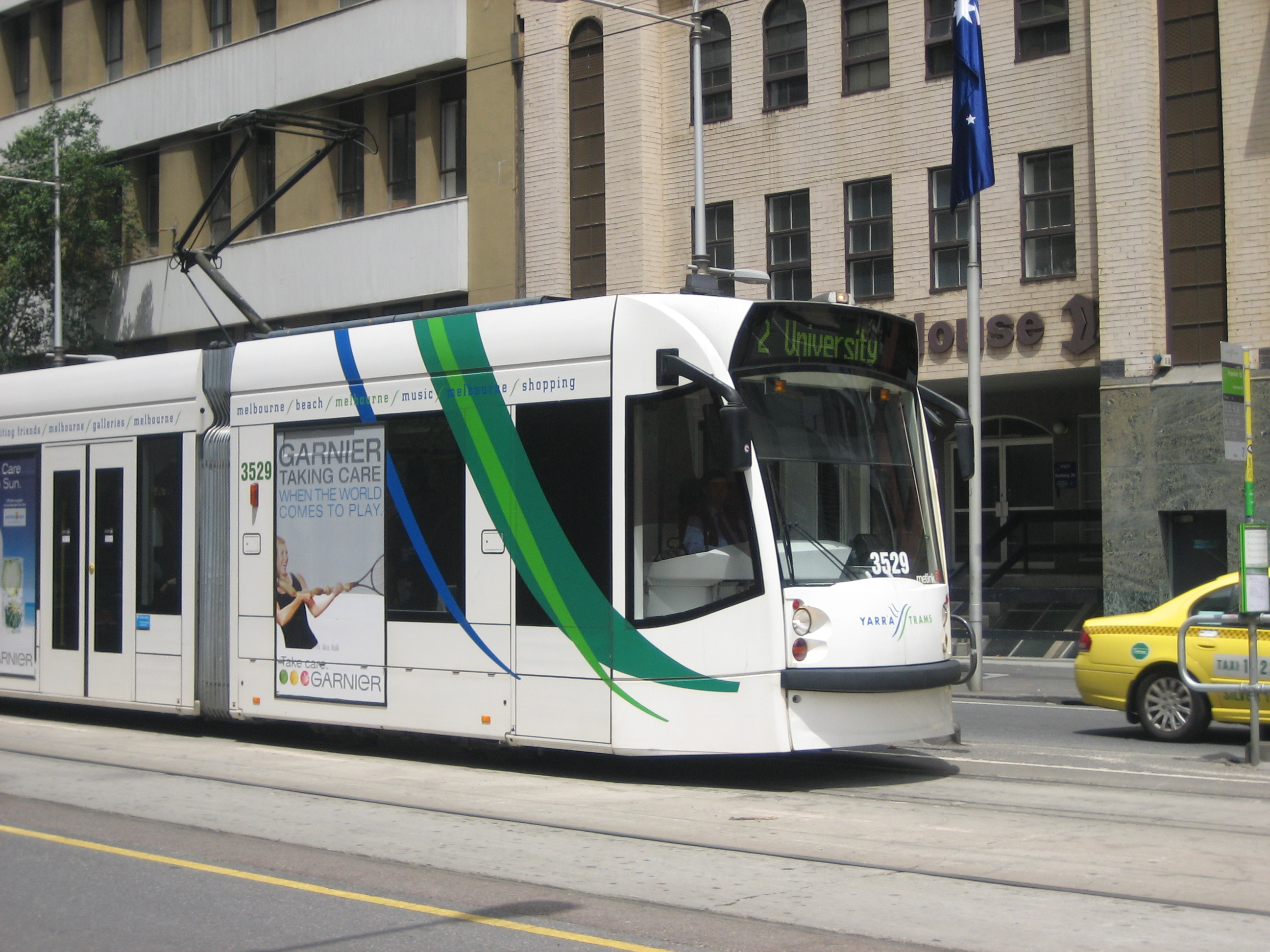 Tram D1 3529 on route 72, Melbourne, Australia